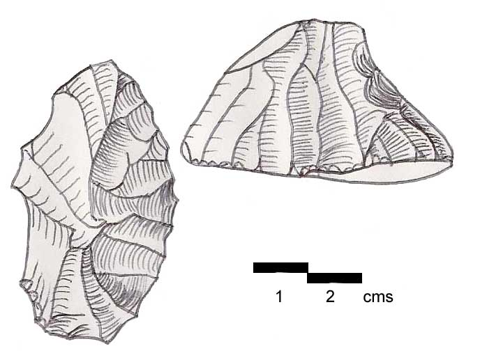 Grattoirs de côté. A carinated steep-scraper with a racloir on one of the sides. Found at Jdeideh II, Lebanon.